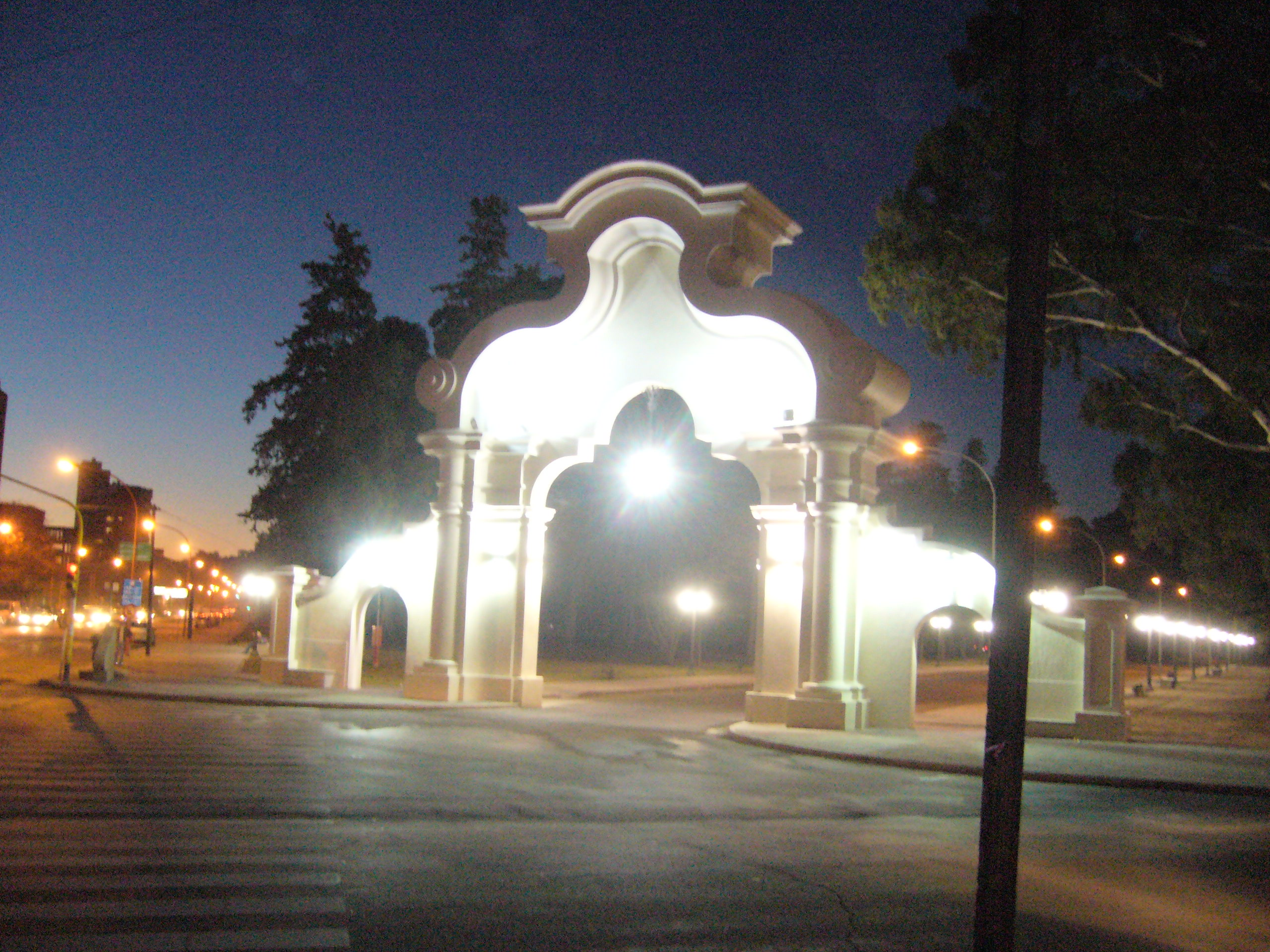 Entrada Parque de Mayo